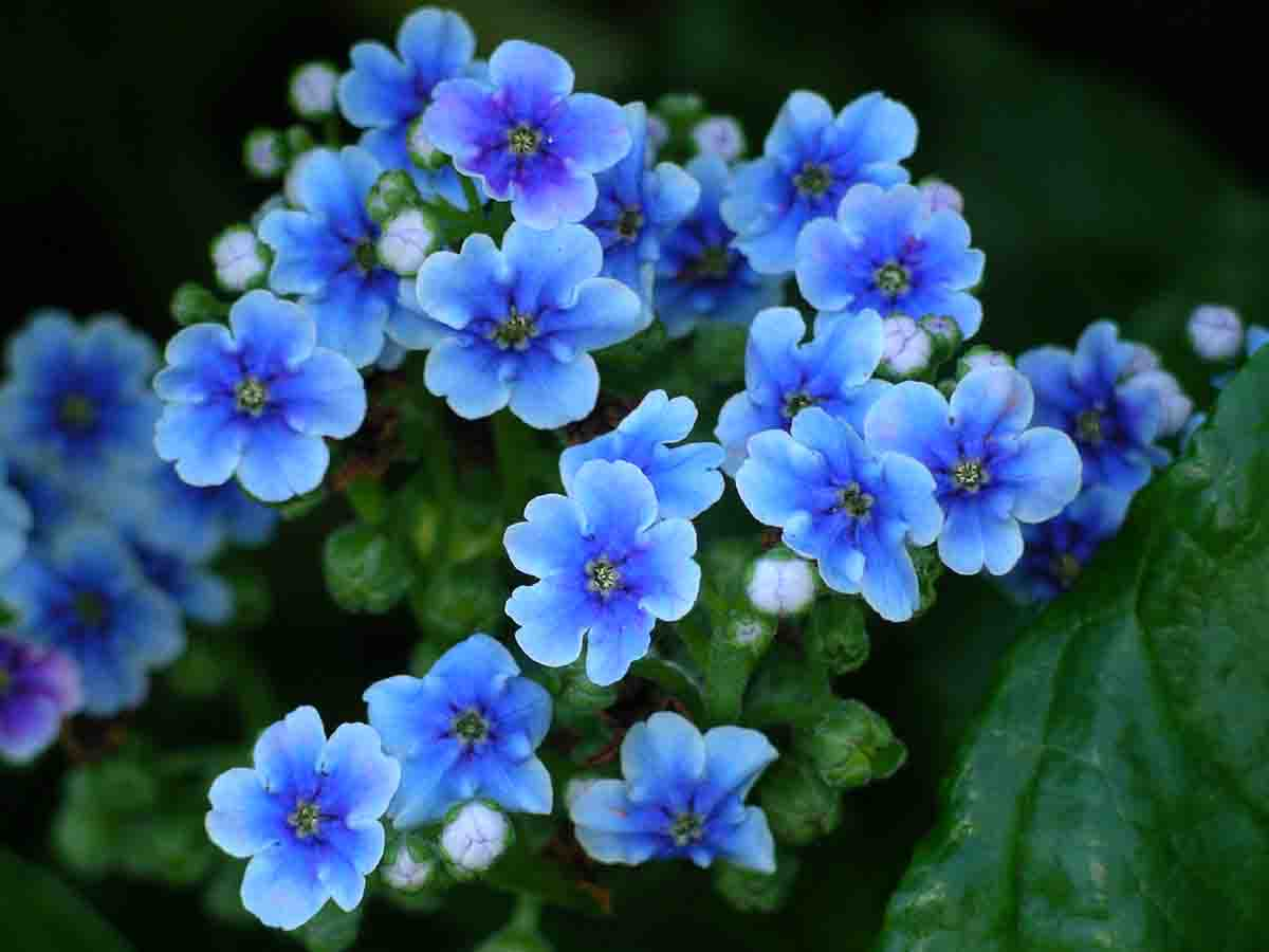 Myosotidium hortensia - Chatham Island Forget-me-not growing in Christchurch Botanic gardens